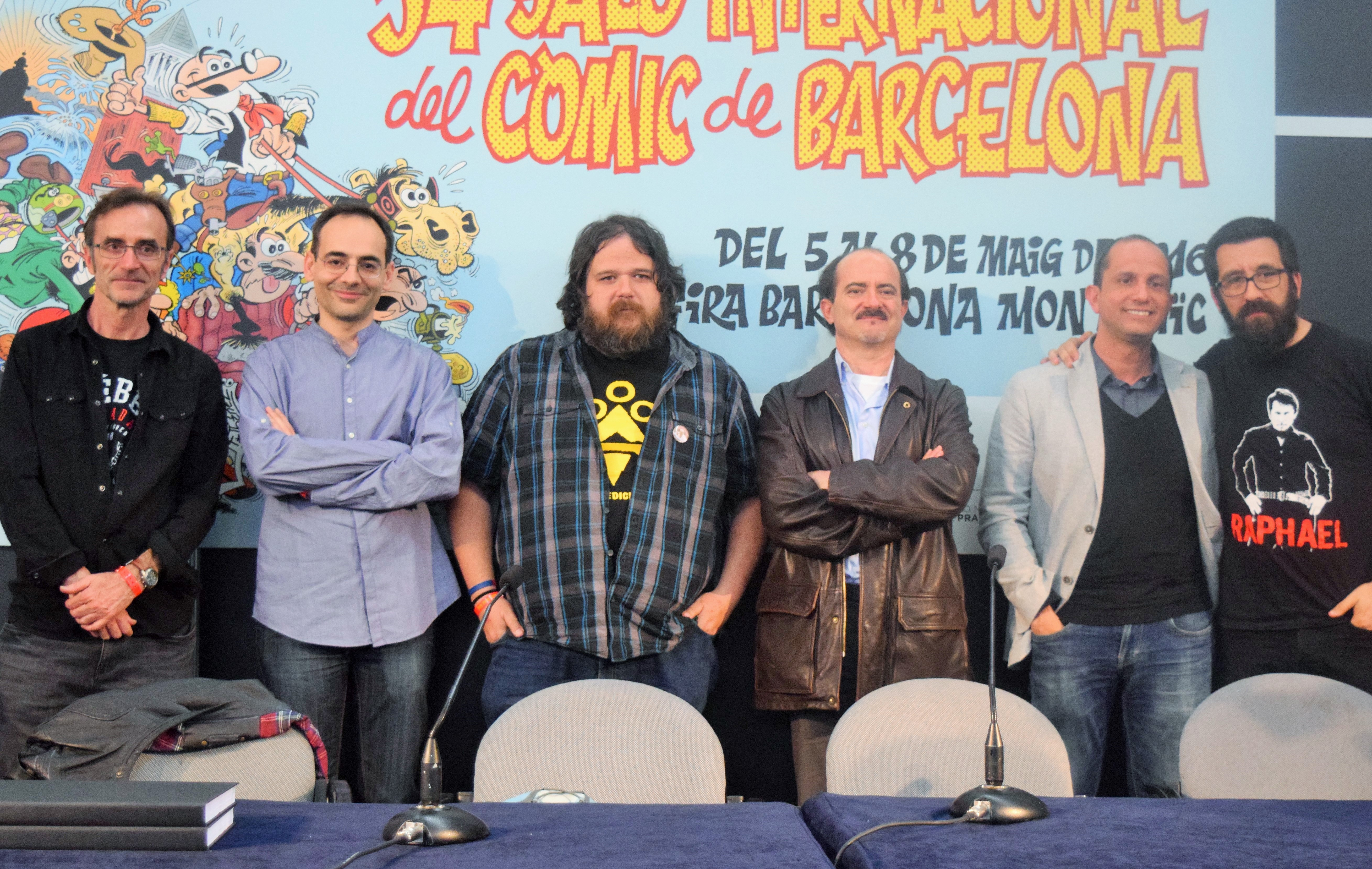 Conference. Meeting with half of the nominated authors to the award to the Best Comic. Speakers (from left to right): Rubén Pellejero and Juan Díaz Canales (Corto Maltés. Bajo el sol de medianoche), Josep Busquet (La última aventura), Daniel Torres (La casa. Crónica de una conquista), Jorge Carrión and Sagar Forniés (Barcelona. Los vagabundos de la chatarra). The journalist Vicent Sanchis moderated the conference. Barcelona Internacional Comic Convention. Friday 6 may 2016.